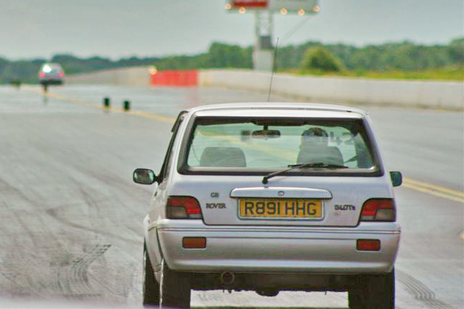 A Rover 114 GTa at Santa Pod